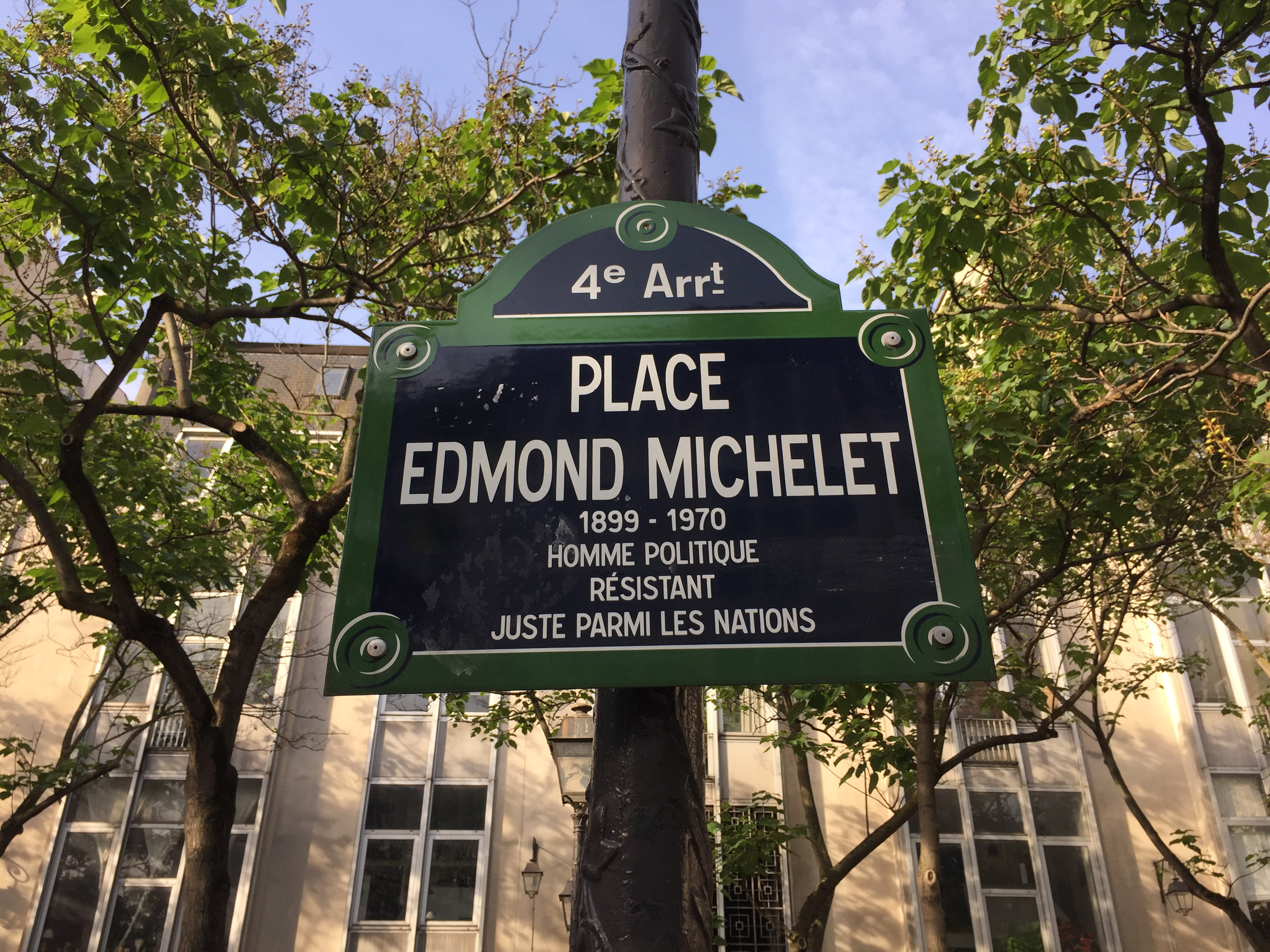 This photograph was taken with an iPhone 6